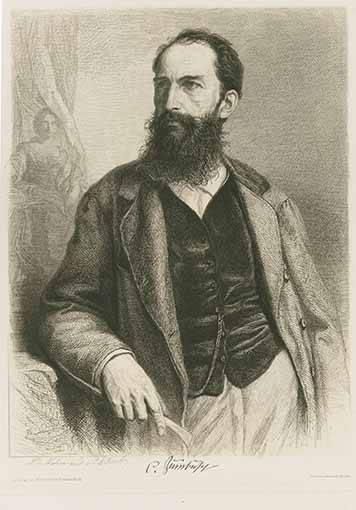 The German sculptor Caspar Clemens Eduard Zumbusch